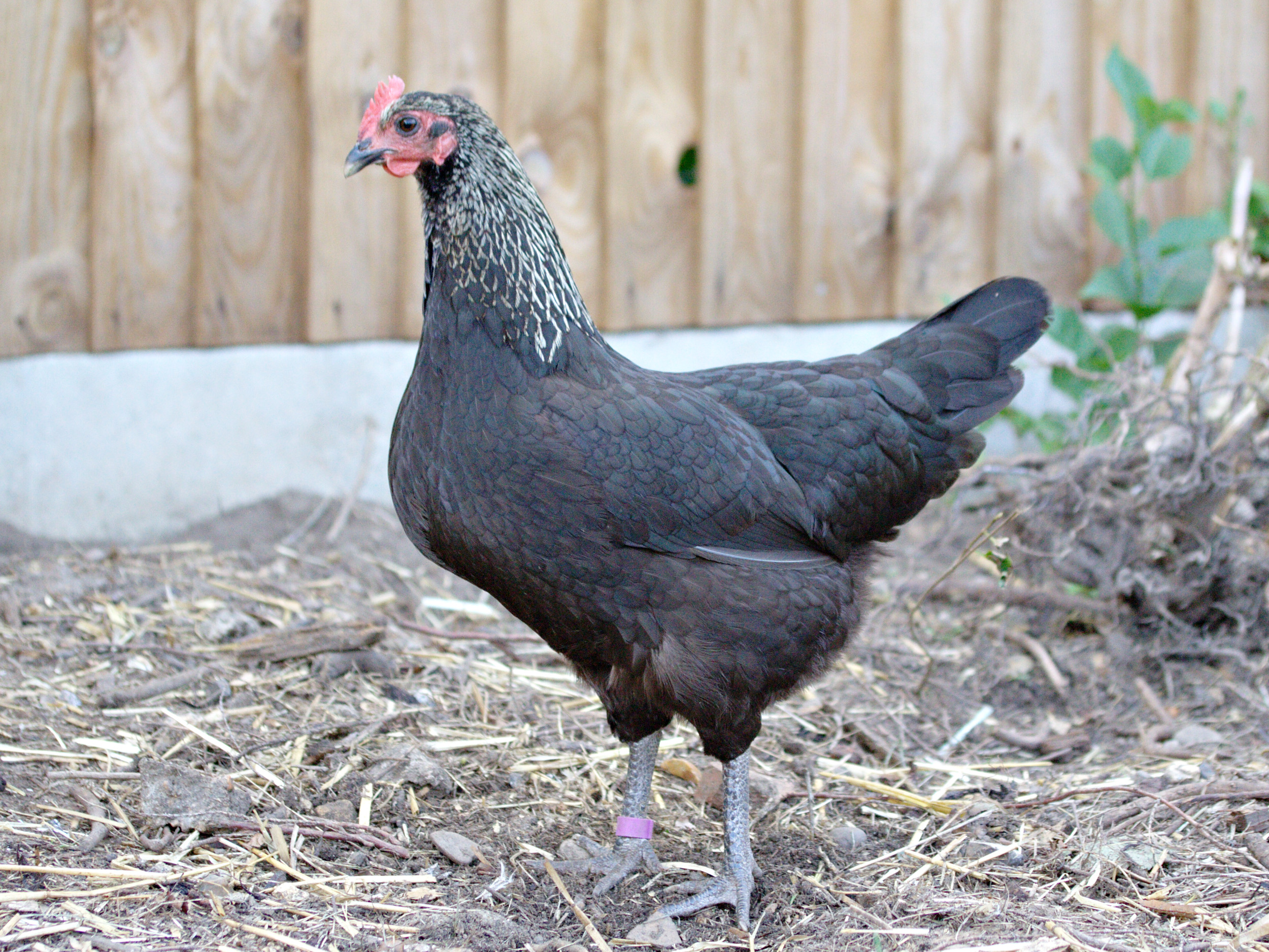 14 month old Norfolk Grey hen with a full crop. Norfolk Grey is a rare utility breed developed in Norwich at the start of the 20th century.